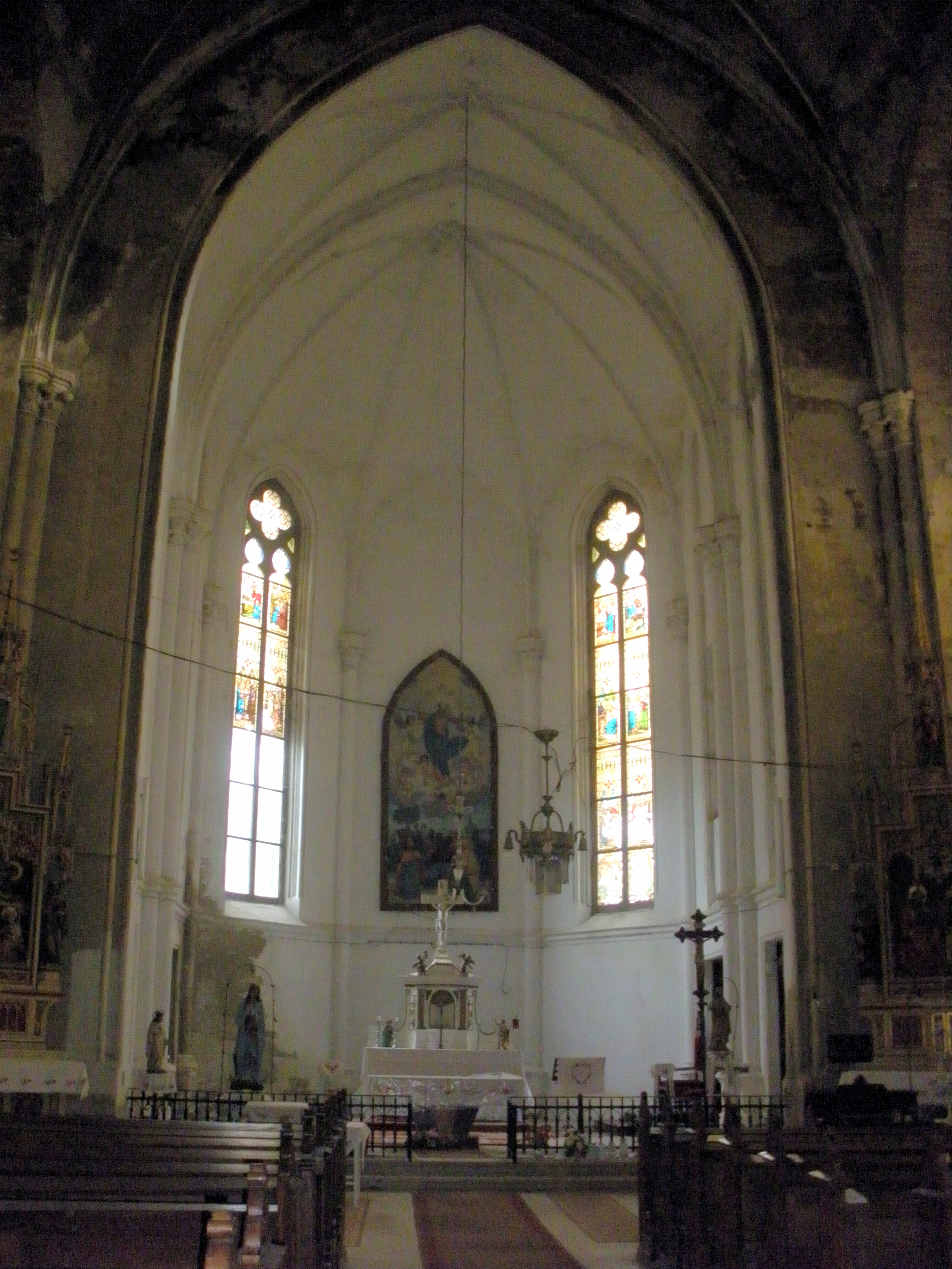 prezbiterium of church in Jaša Tomić (Módos, 1911)